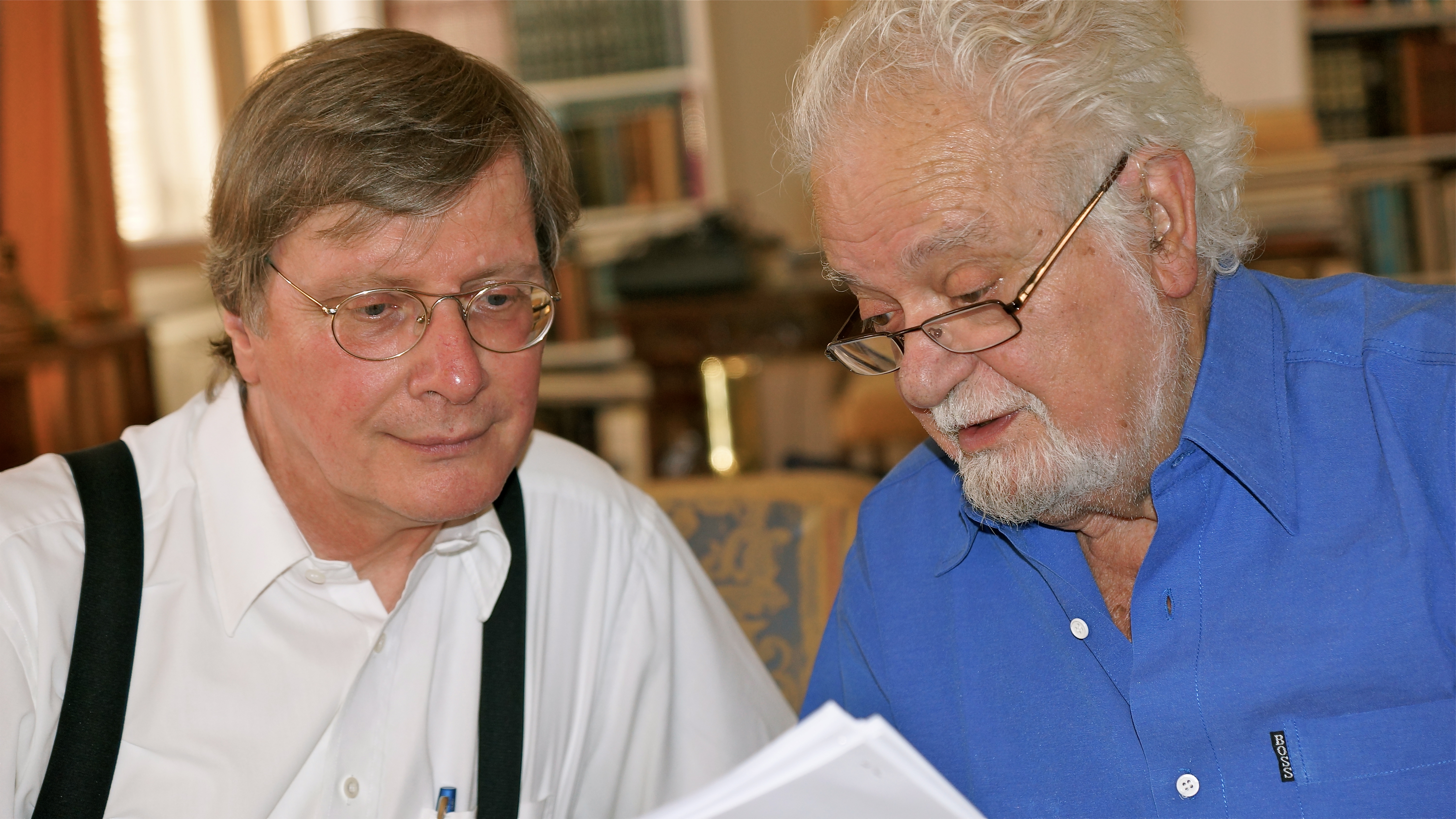 JCB Kirsch Spyros Mercouris